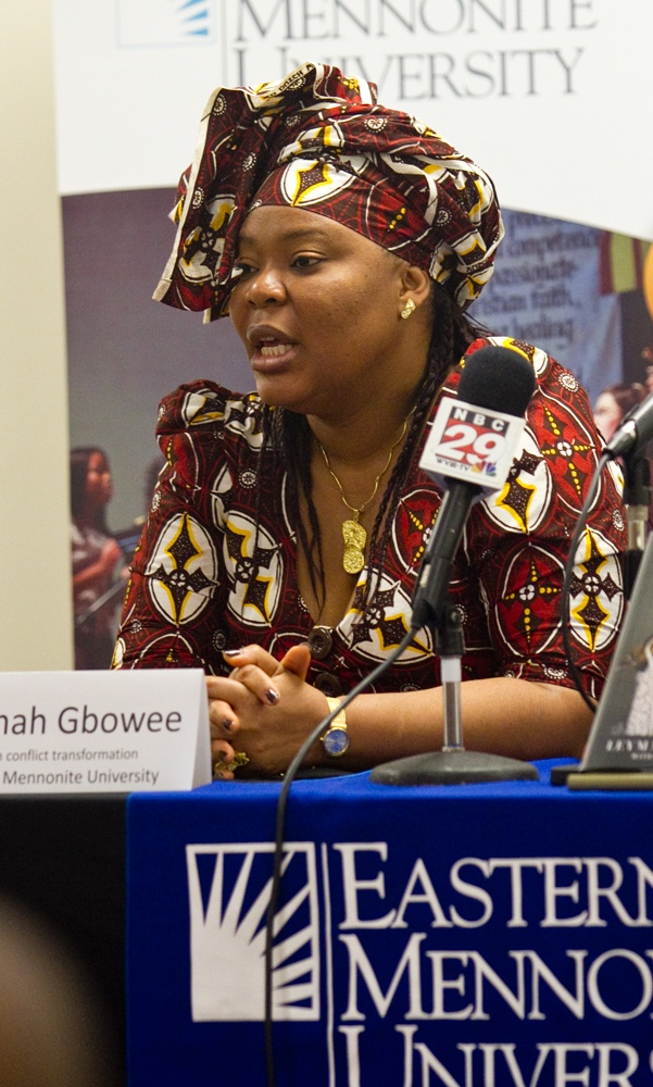 Nobel Peace laureate, Leymah Gbowee, speaks during a press conference at Eastern Mennonite University in Harrisonburg, VA (US) on October 14, 2011.